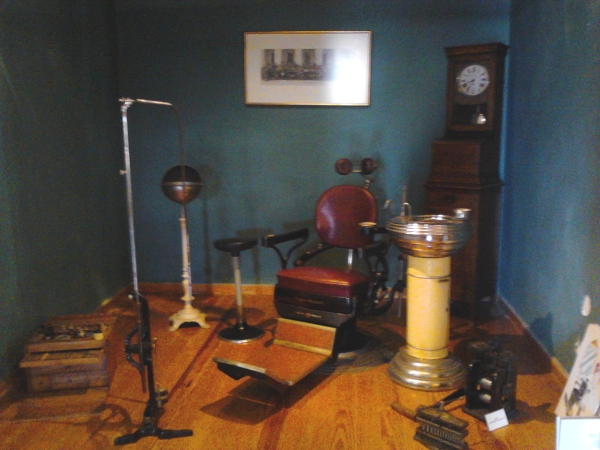 Old dentist equipment